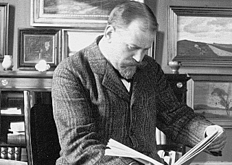 Wilhelm Peter Henning Hansen (1868-1936), Danish insurance company CEO, art collector, founder of Ordrupgaard, and Volapük practitioner